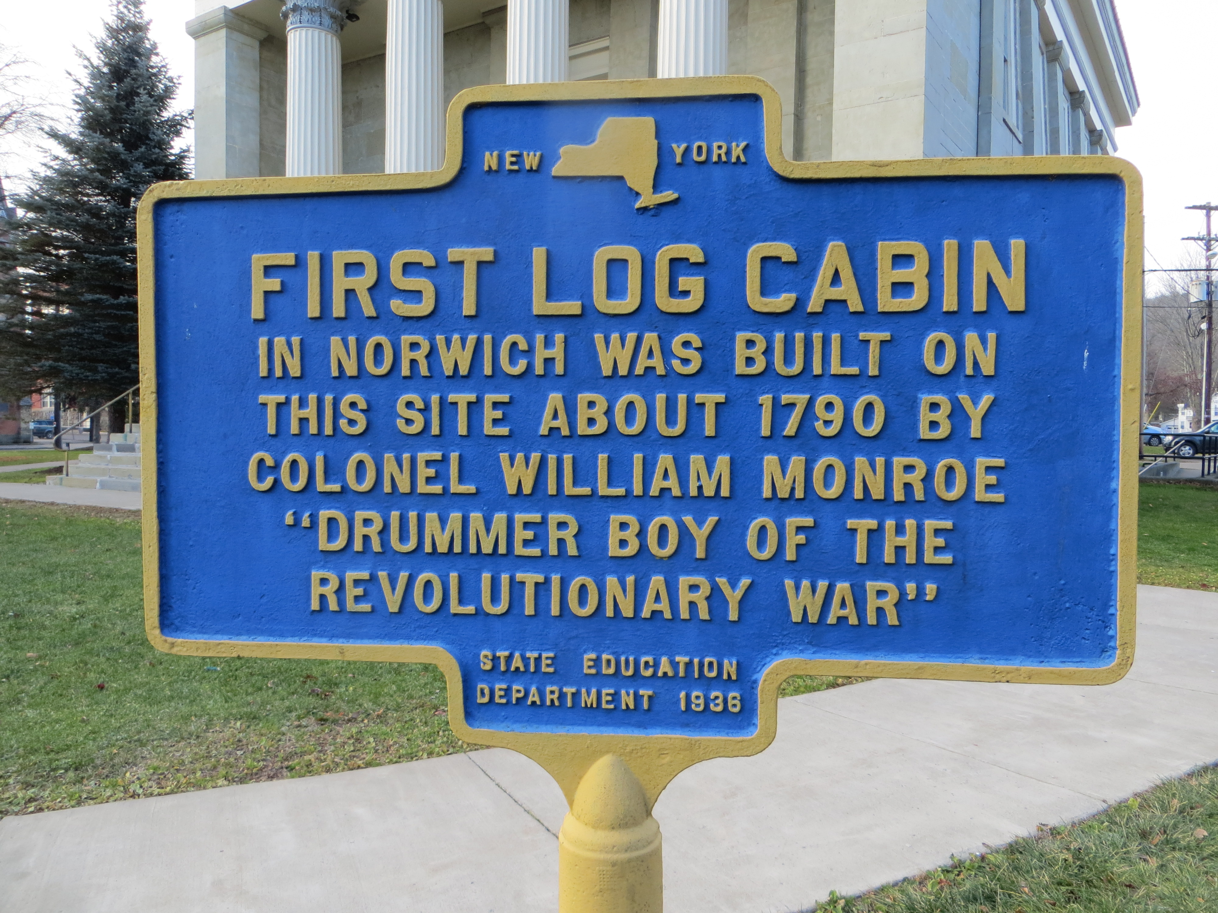 Historic marker of the first log cabin in Norwich, NY. Built in 1790 by Colonel William Monroe "Drummer boy of the Revolutionary War"